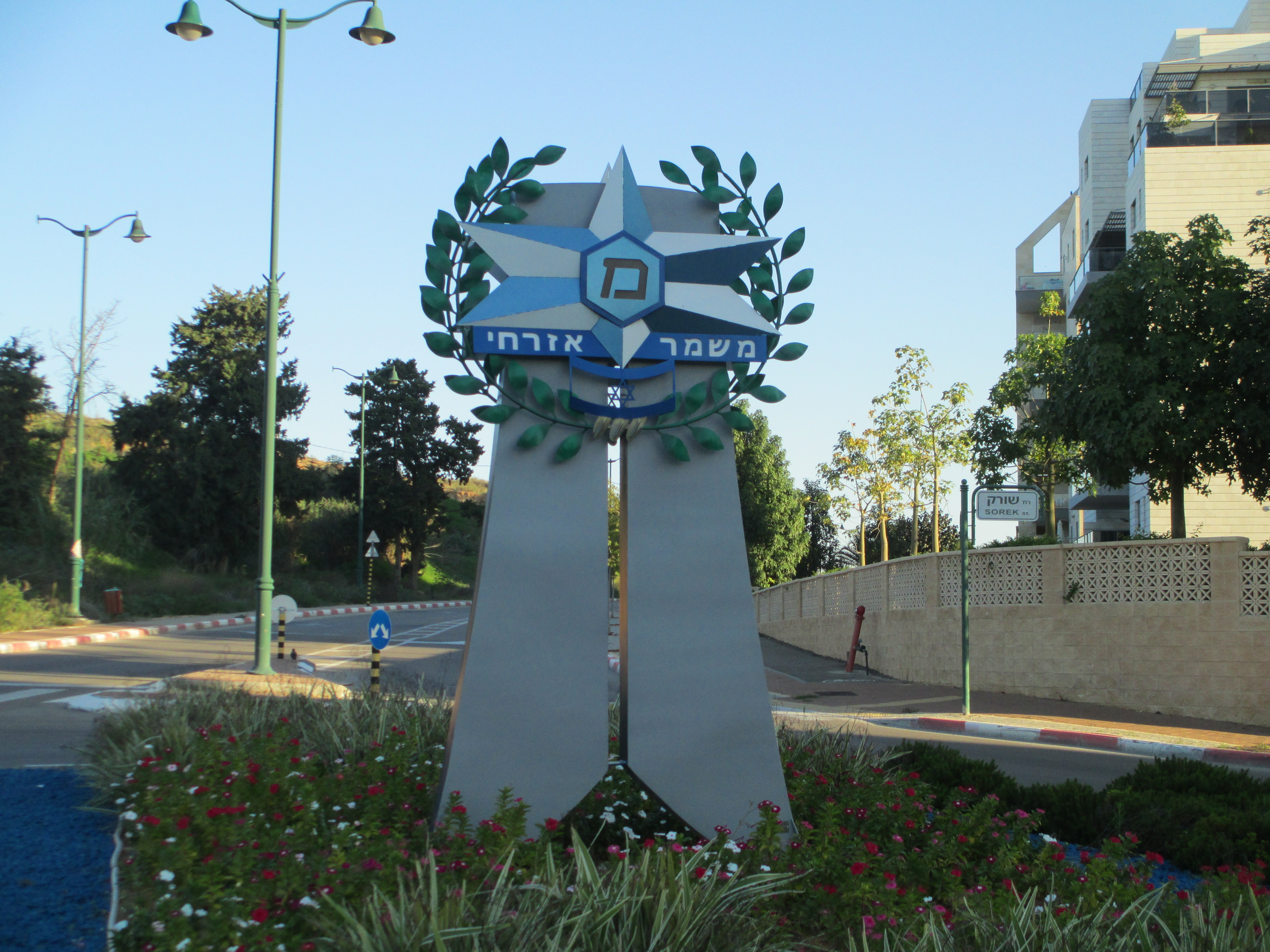 Civil Guard circle in Ness Ziona